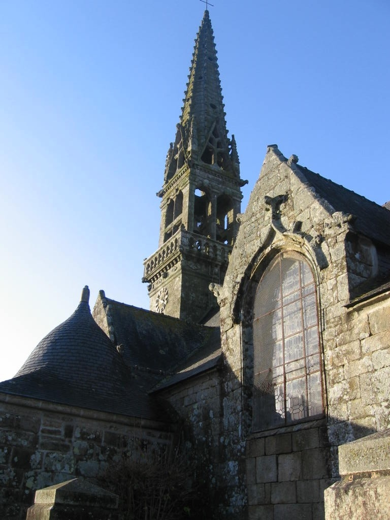 Tregourez church